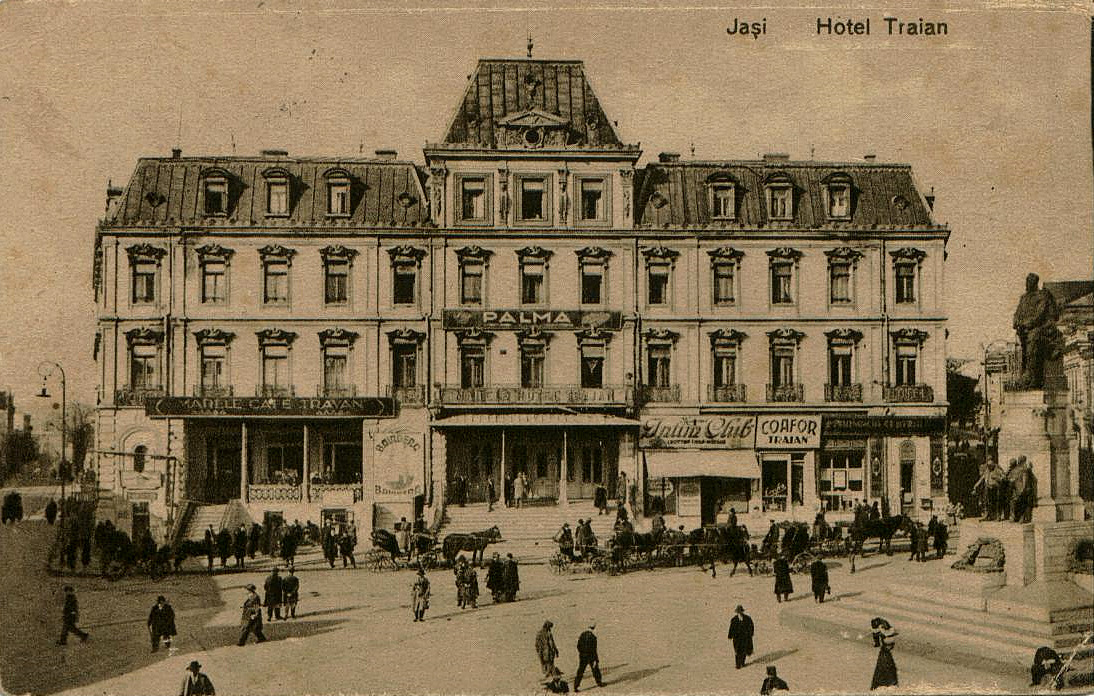 Iasi , Grand Hotel Traian , old view , Iaşi , Romania